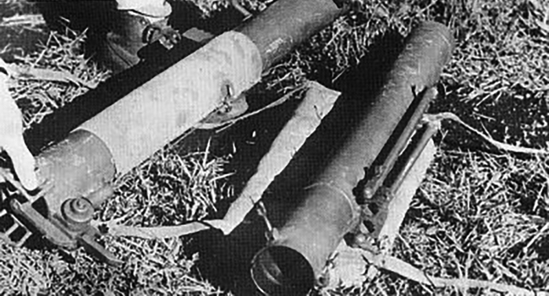 A Type 4 7 cm AT Rocket Launcher of the Imperial Japanese Army, disassembled, 1945